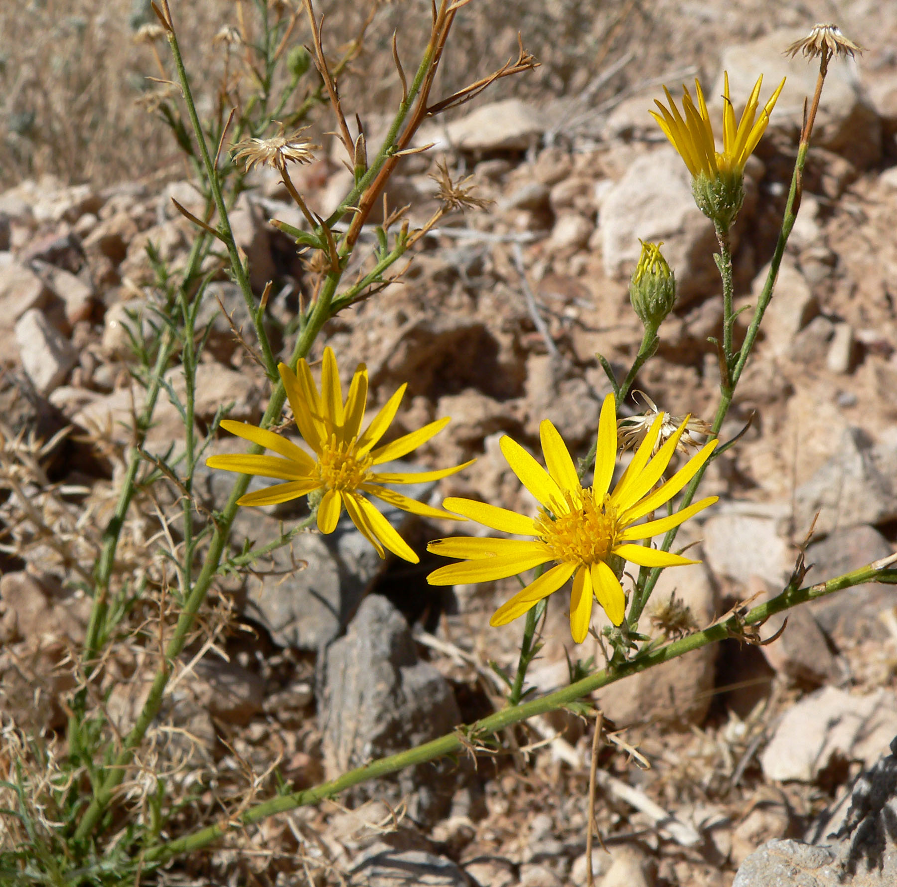 Xanthisma spinulosum (probably var. gooddingii) on Frenchman Mountain, just east of Las Vegas, Nevada